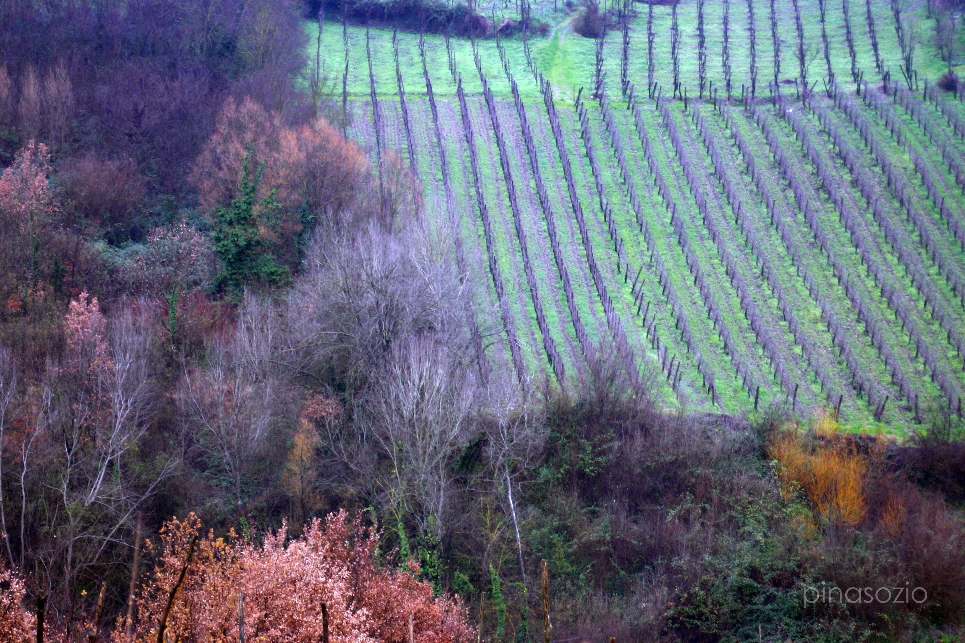 Vineyard growing Greco di Tufo in Italy.